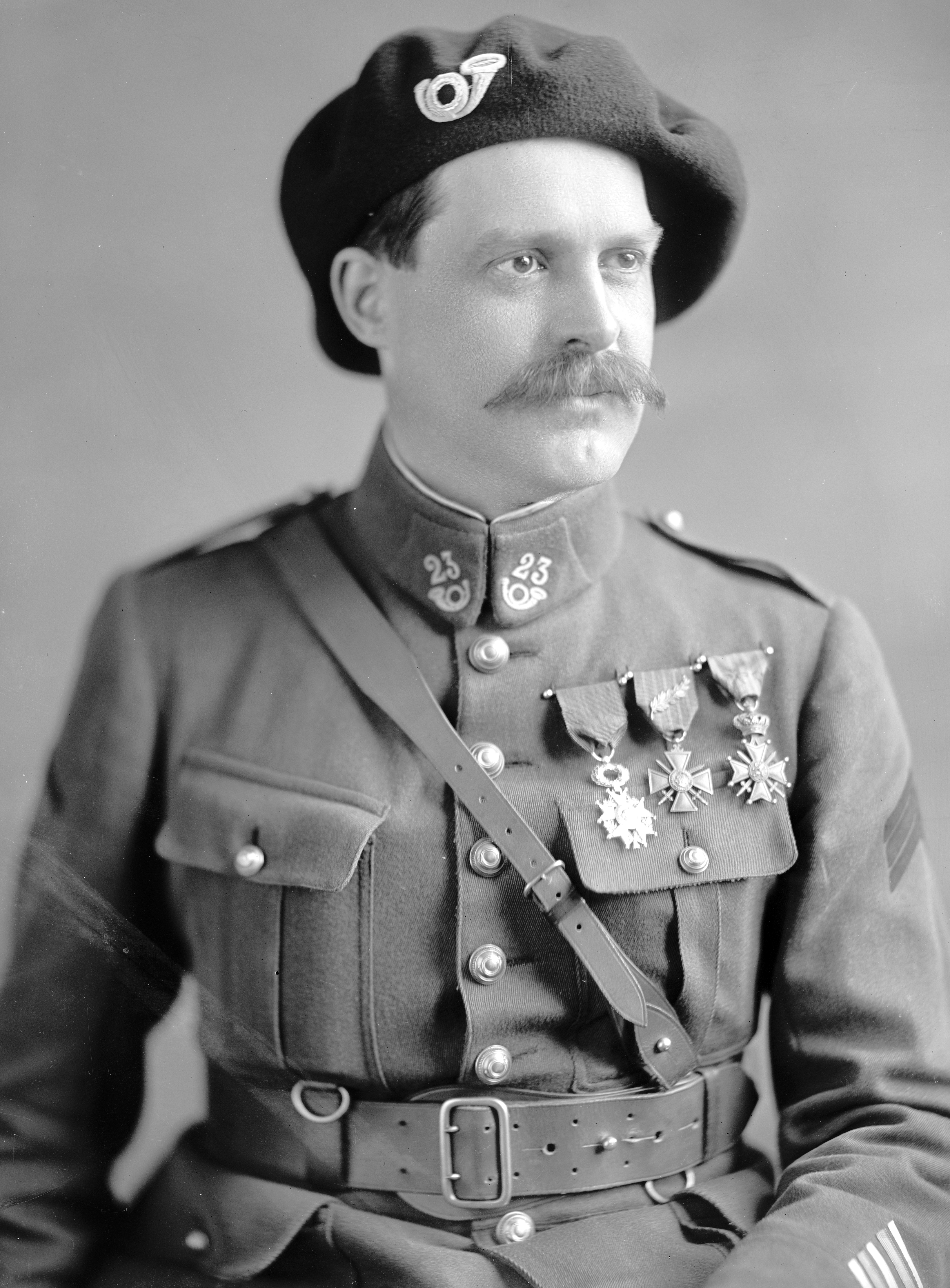 French military officer and politician Jean Fabry (1876-1968)